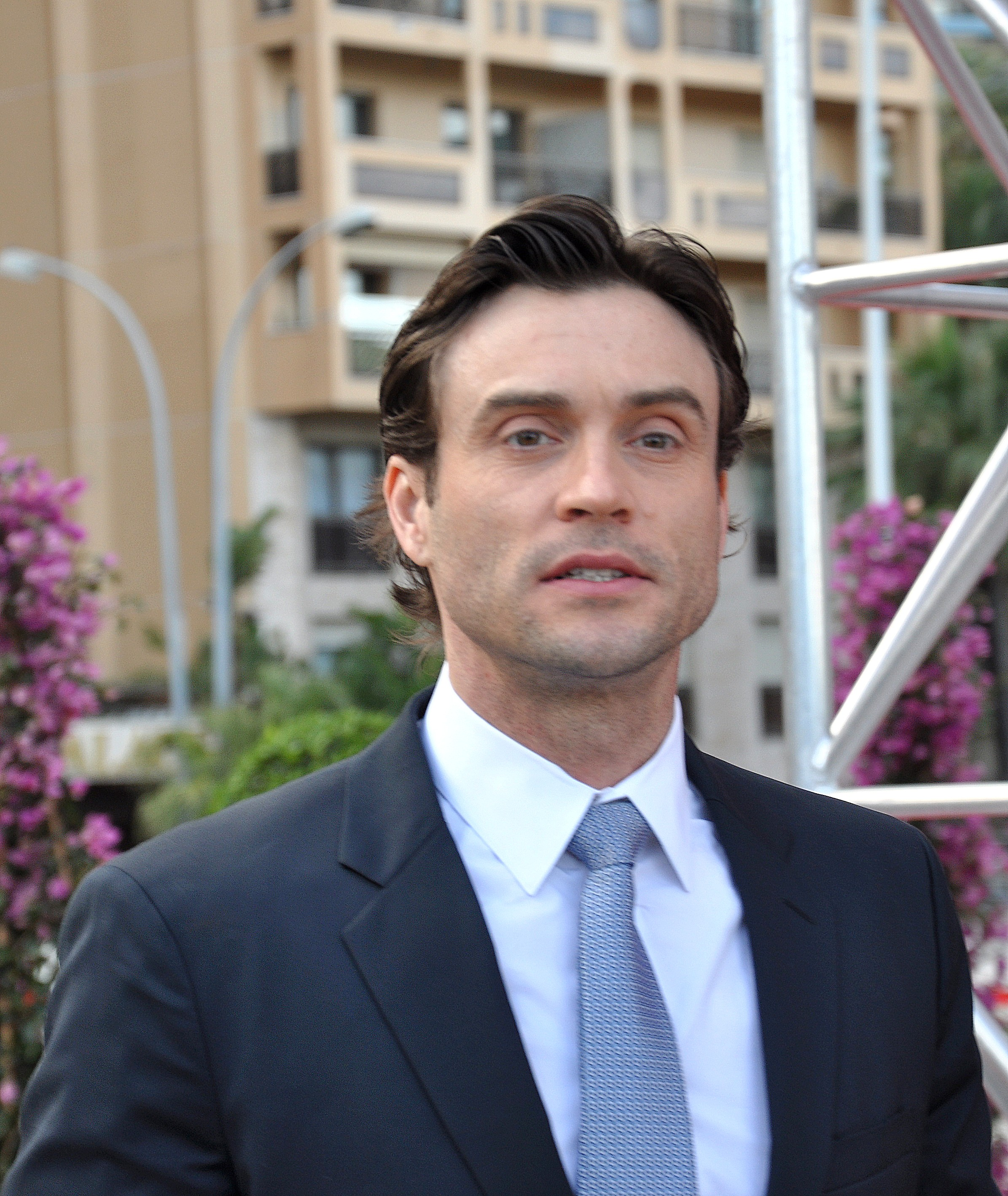 Daniel Goddard at the 2013 Monte-Carlo Television Festival.